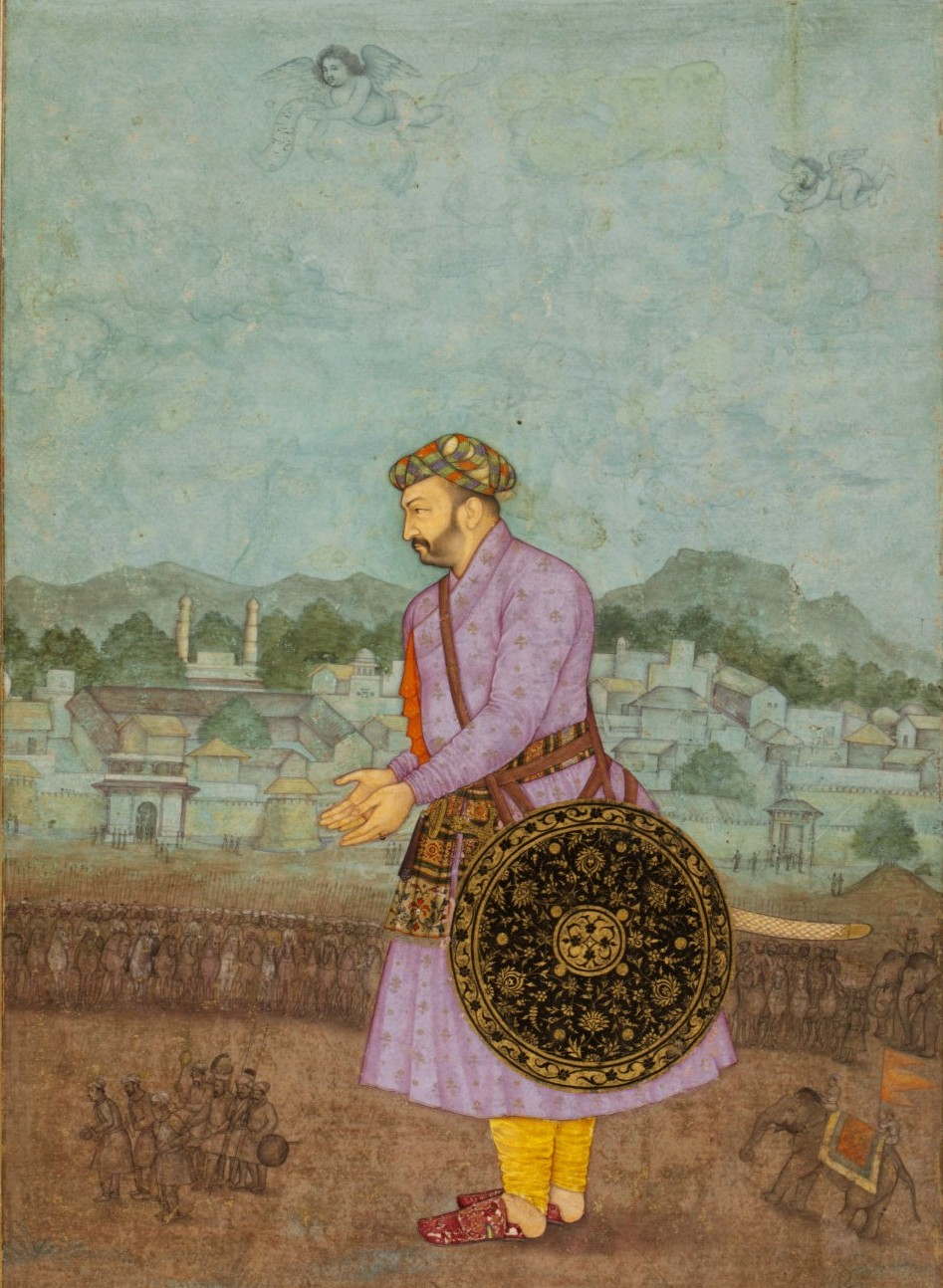 Portrait of Asaf Khan Object Name: Album leaf Date: 19th century Geography: India Culture: Islamic Dimensions: 14 1/4 x 9 3/4in. (36.2 x 24.8cm) Classification: Codices Credit Line: Gift of Alexander Smith Cochran, 1913 Accession Number: 13.228.52 This artwork is not on display